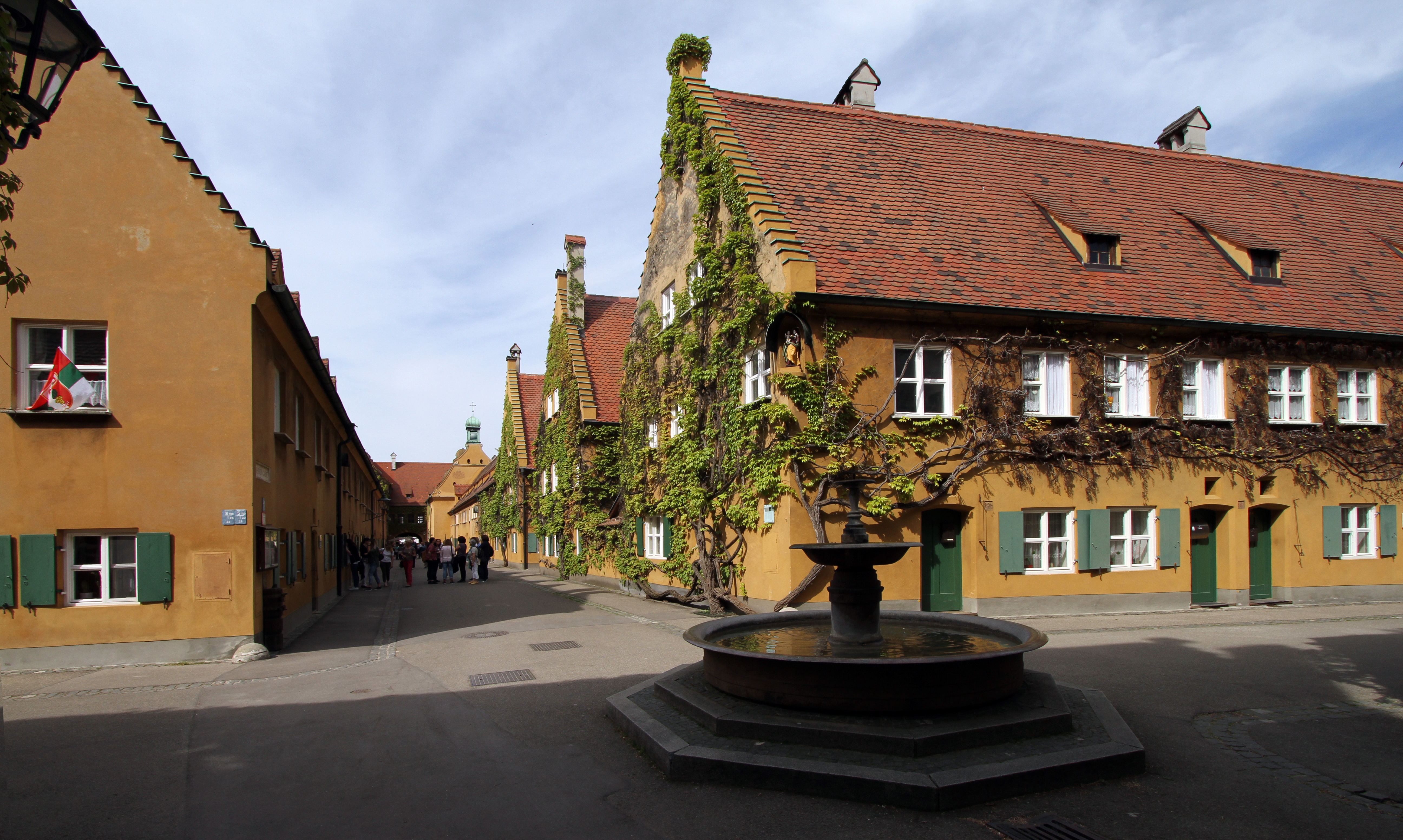 Fuggerei. World's oldest social housing complex, built by Jakob Fugger in Augsburg.